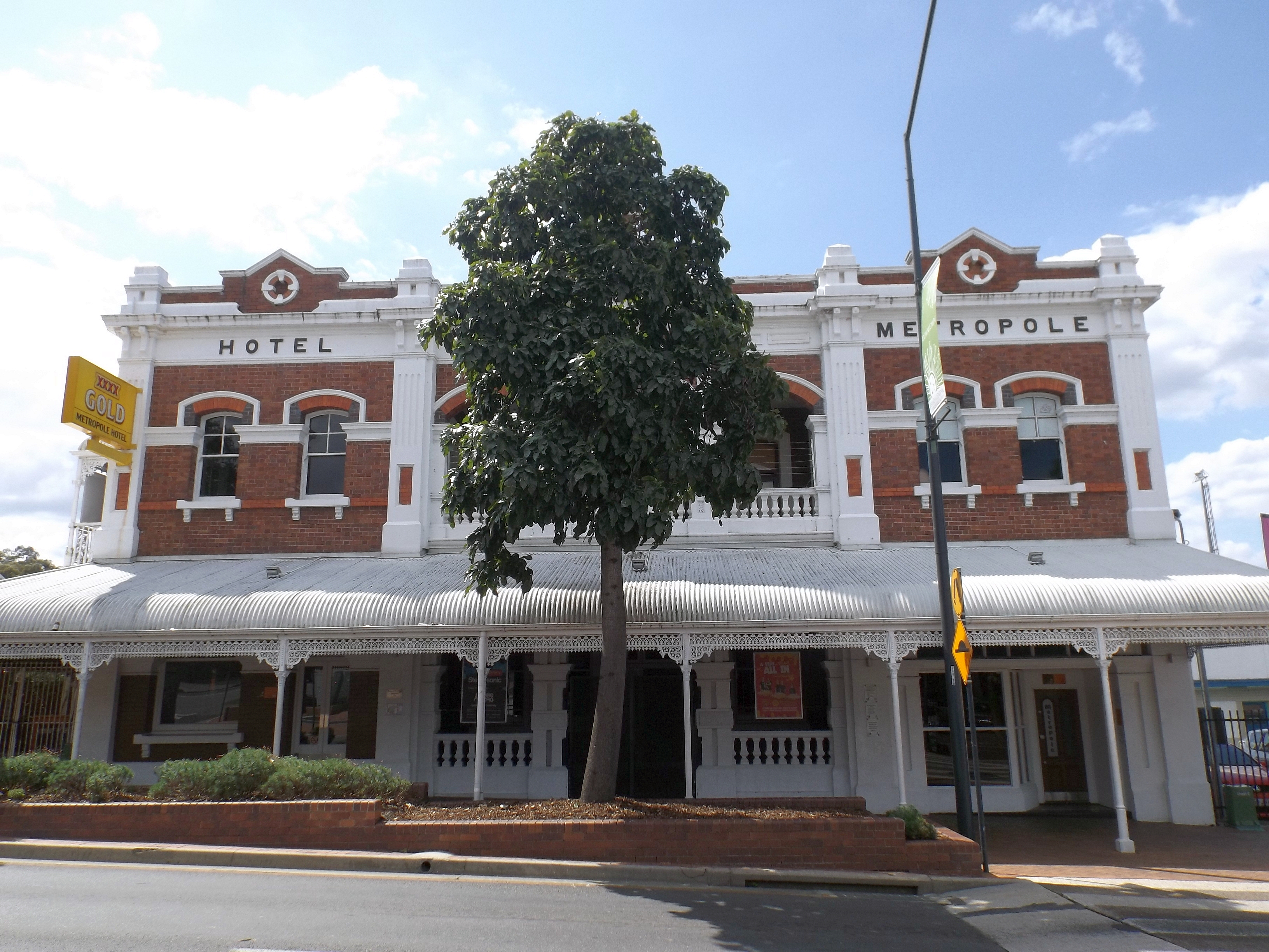 Photo of Hotel Metropole, West Ipswich, Queensland, Australia